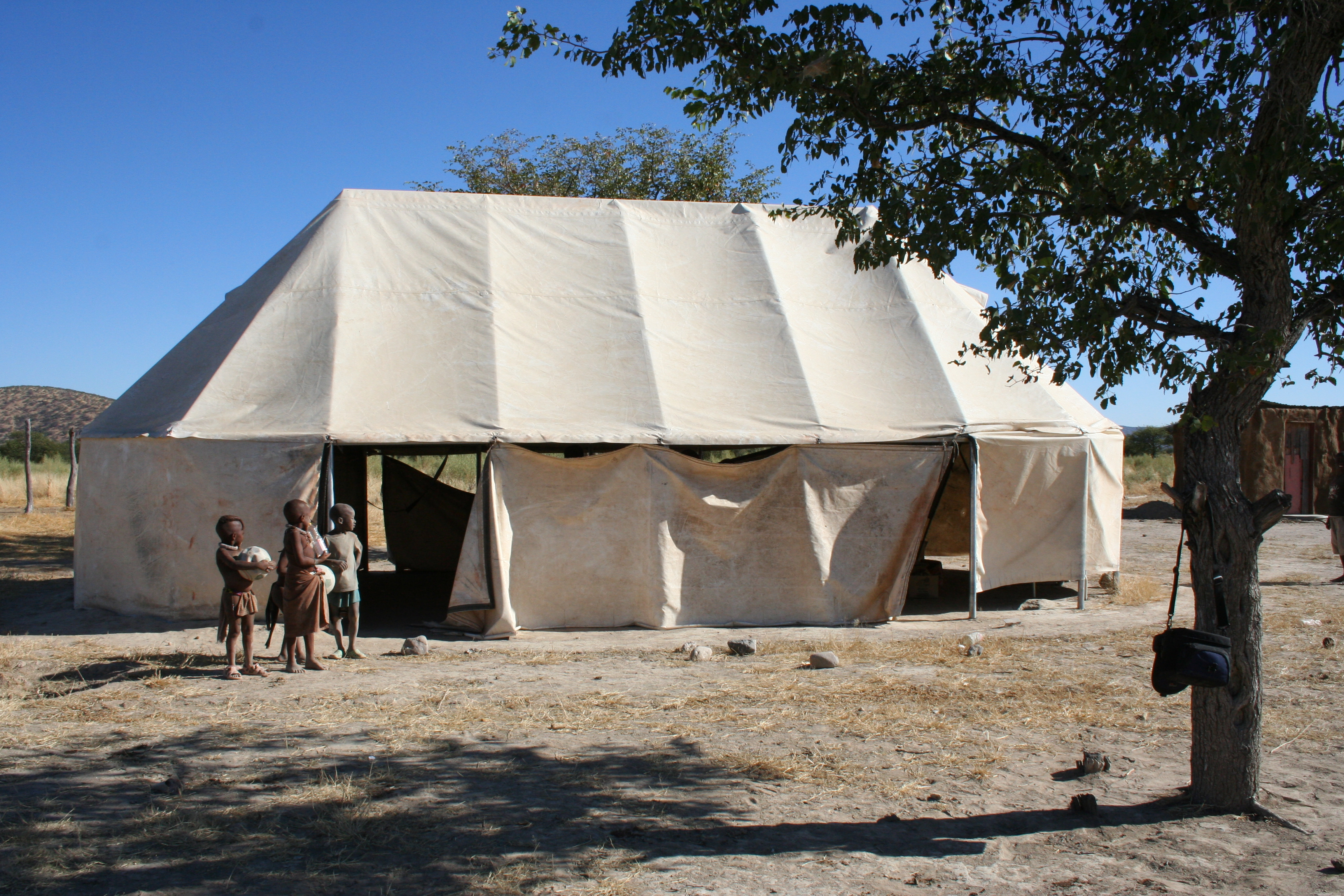 A government-funded mobile school for Himba children in Otutati, Kunene Region, Namibia.